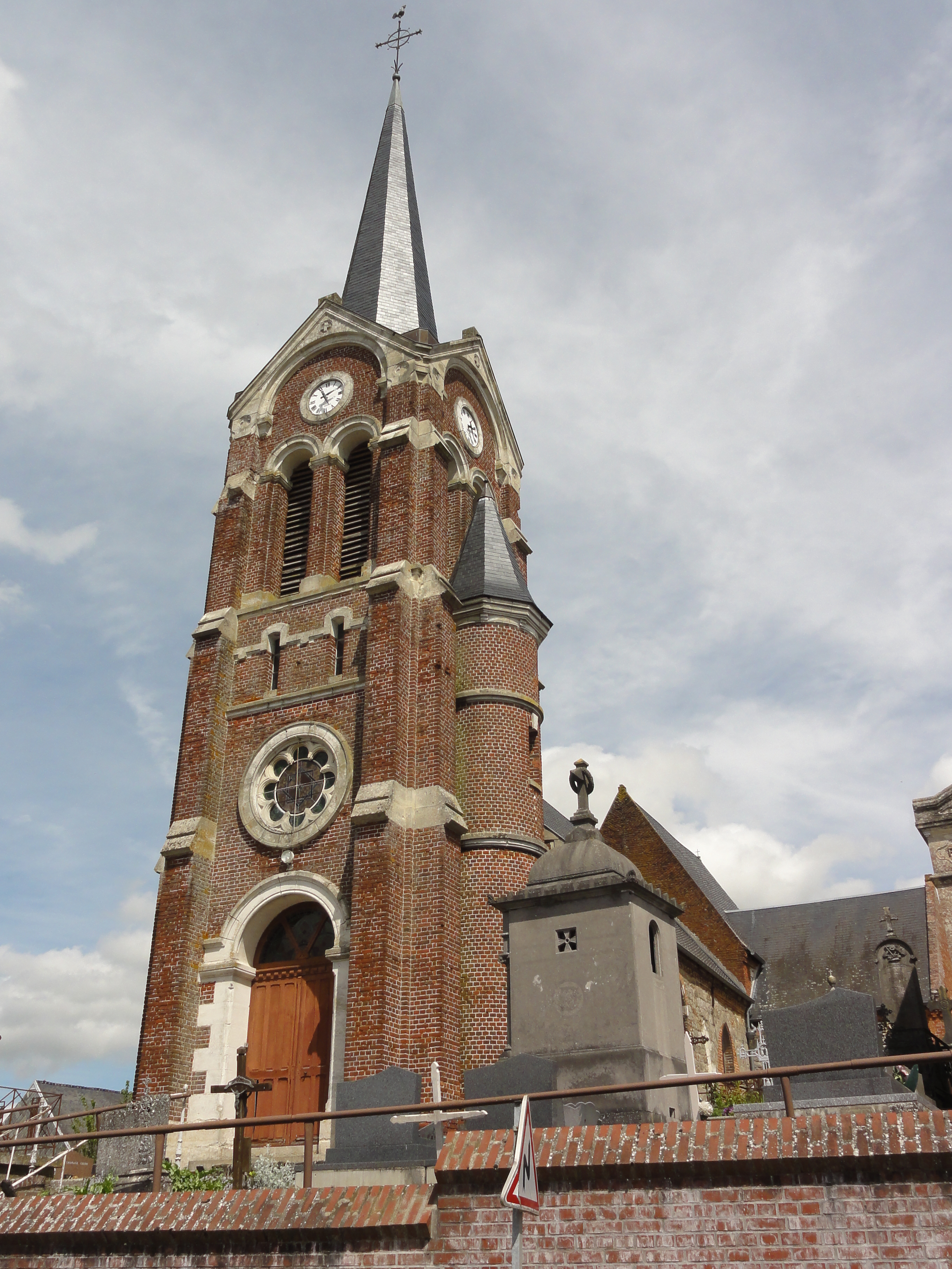 Montigny-sur-Crécy (Aisne) église